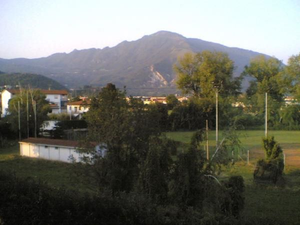 Mount Summano seen from the city of Schio (VI)